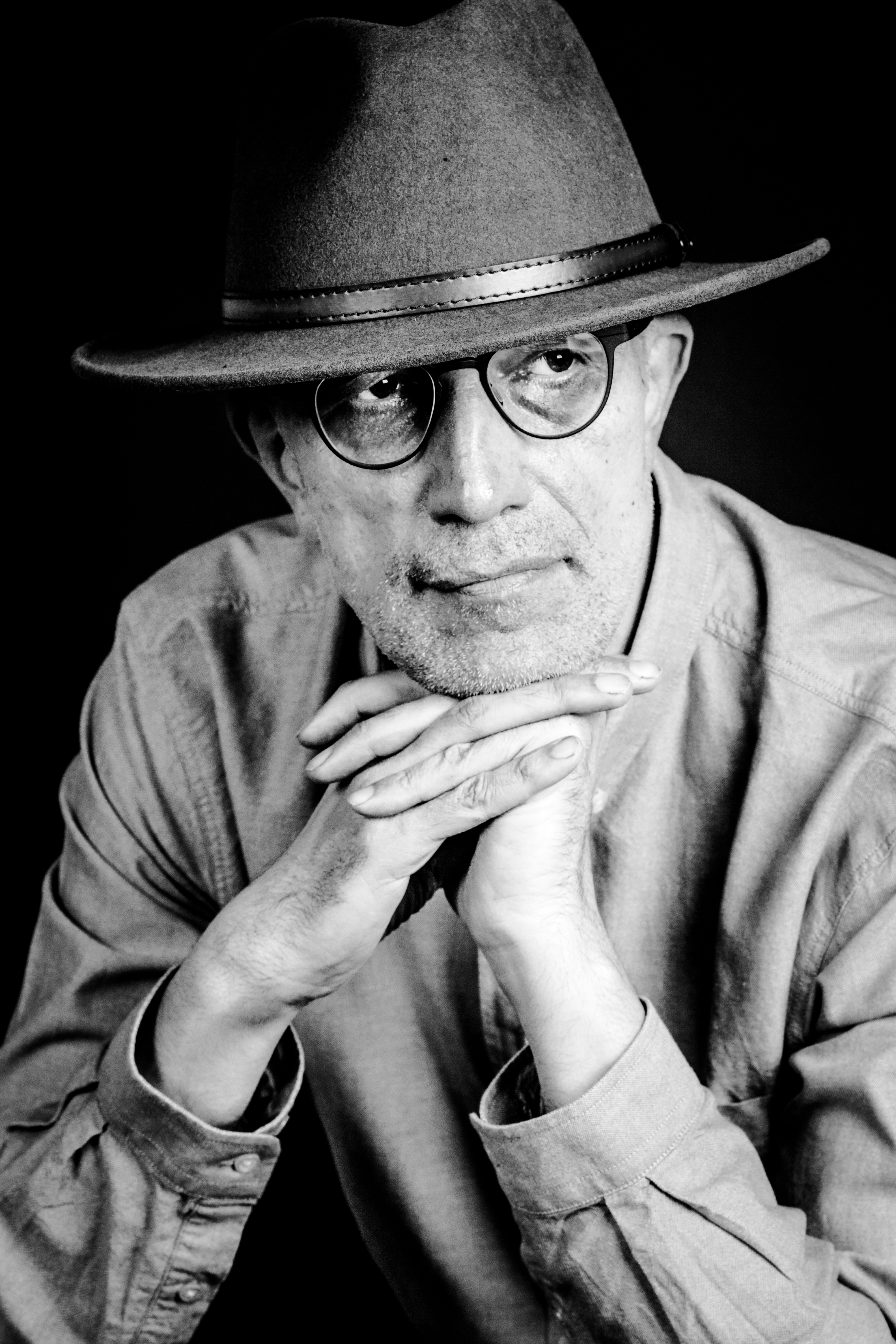 Portrait of the author Norbert Mueller